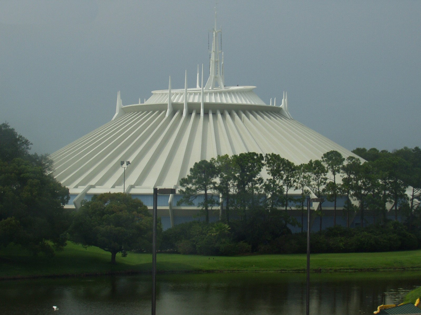 Space Mountain at the Magic Kingdom in the Walt Disney World Resort. Picture taken by KWDW on the Walt Disney World Monorail.